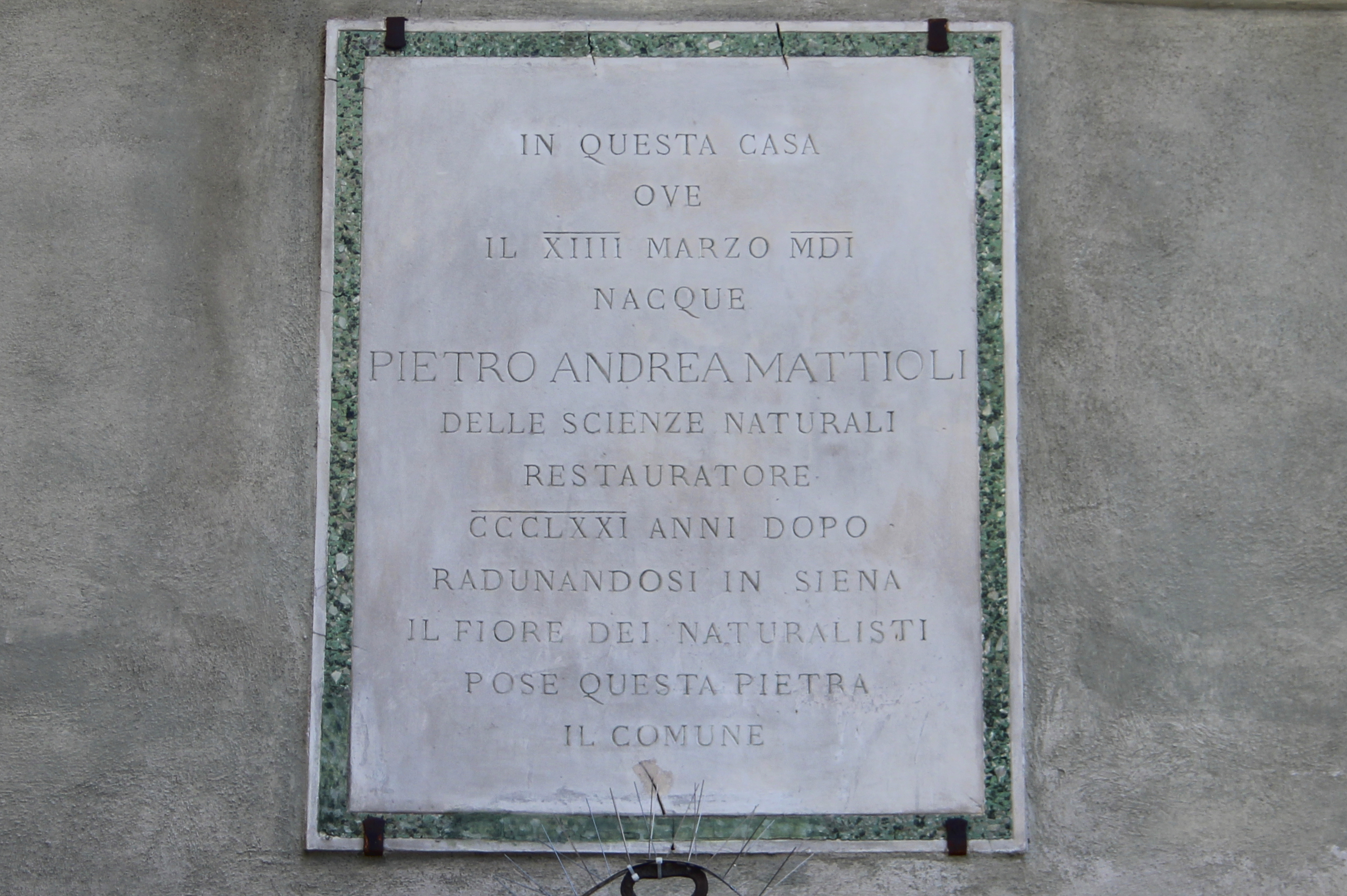 Palazzo Bianchi Bandinelli, Via Roma n.2 , Terzo di San Martino, Siena, Province of Siena, Tuscany, Italy